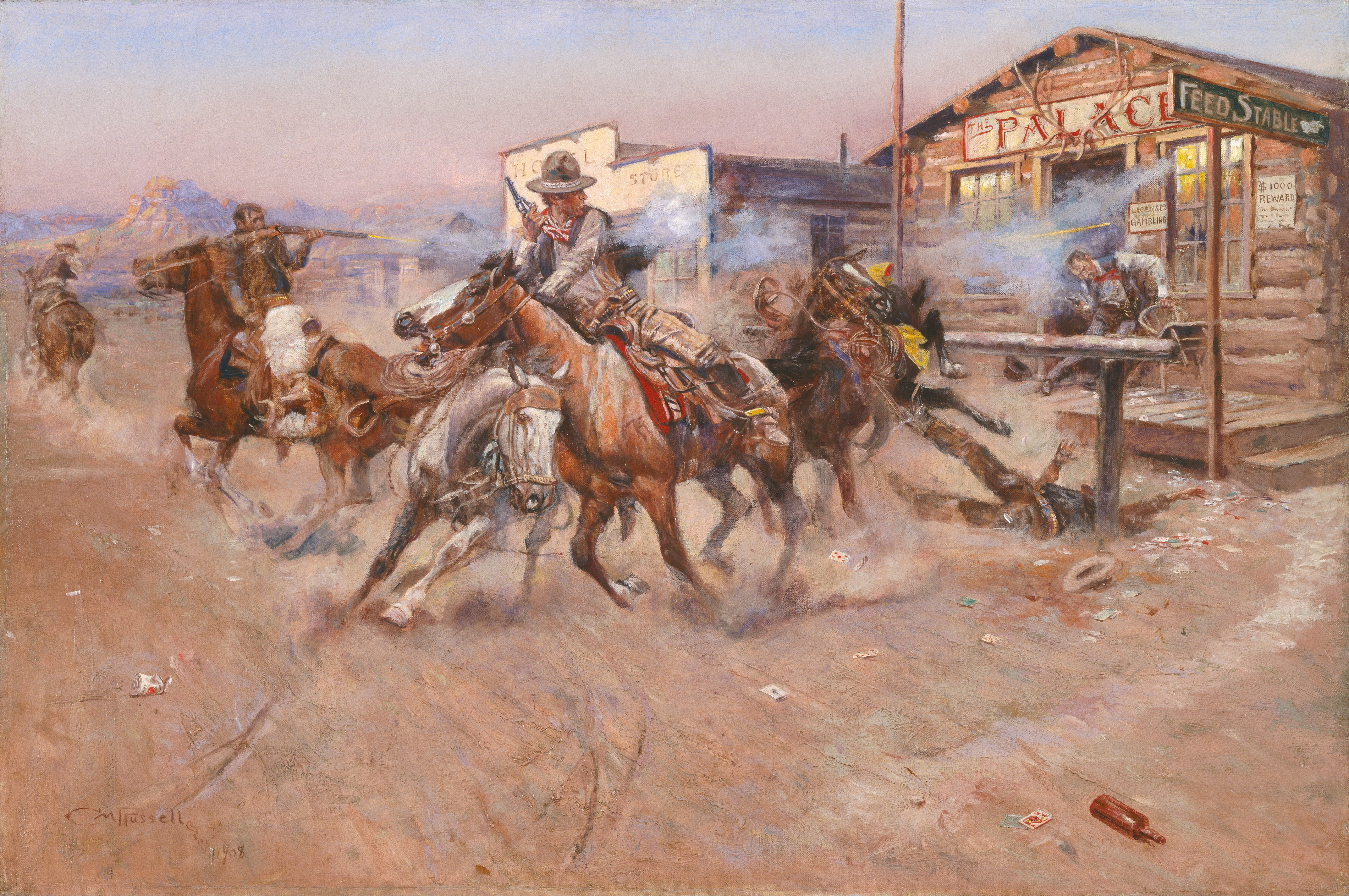 Smoke of a .45 - Charles Marion Russell – Google Art Project